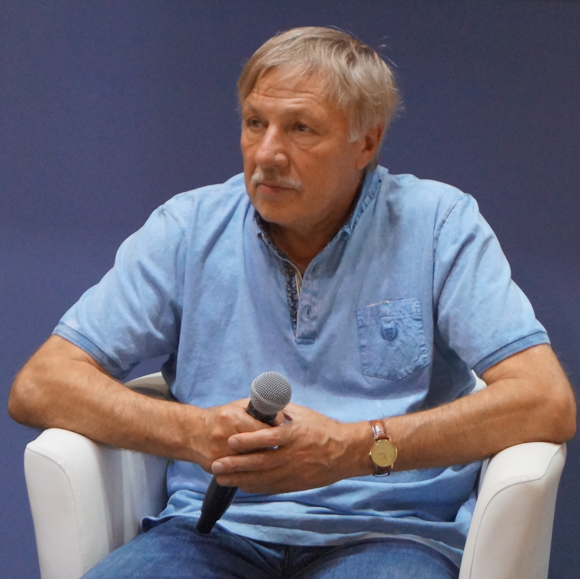 Anatoly Balchev at Frankfurt Book Fair 2018